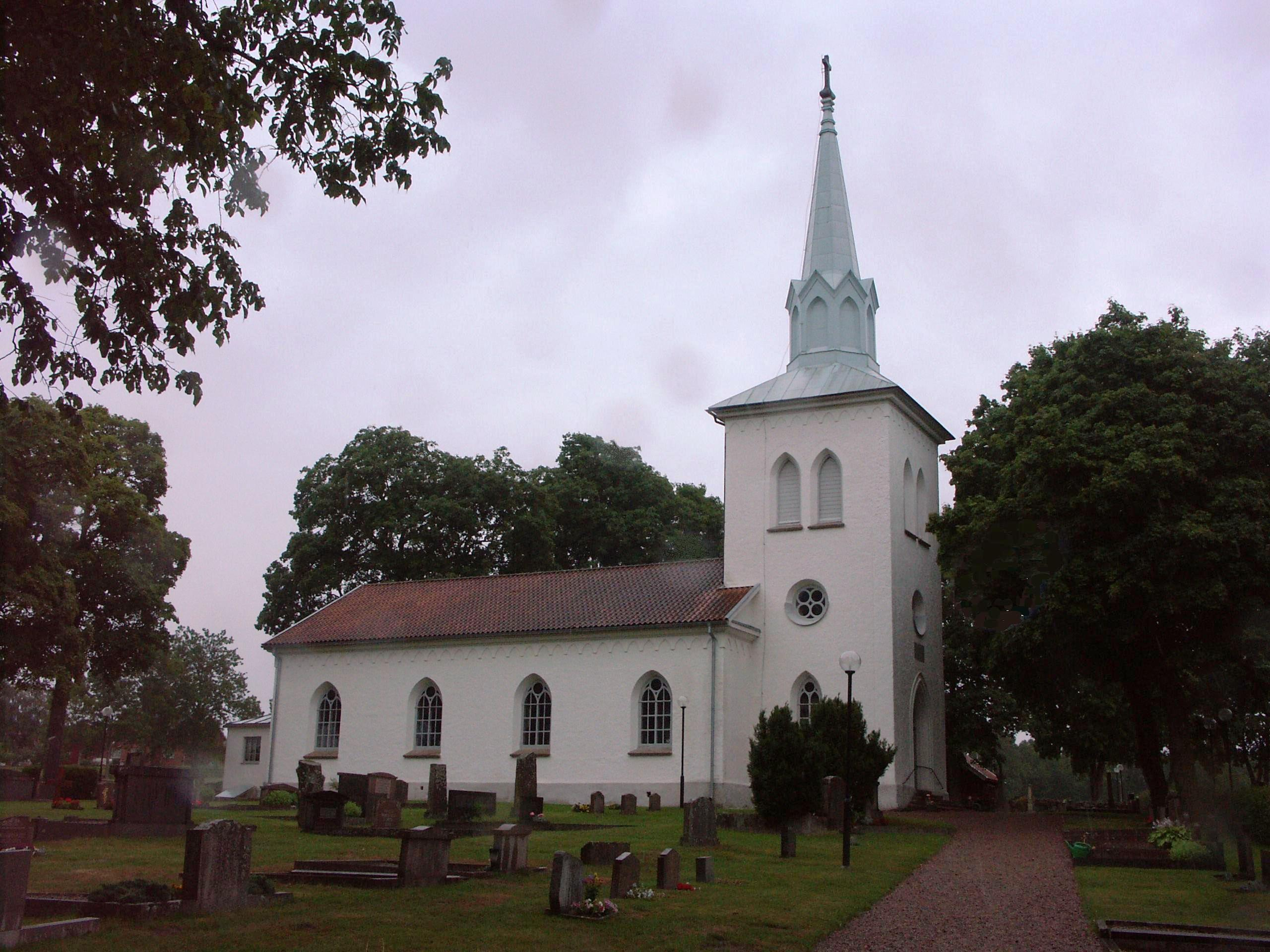 Remmene church in the Skaraborg region of Sweden.